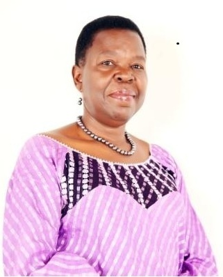 This photo was created by me, Victoria Sekitoleko to be put on my wikipedia paage